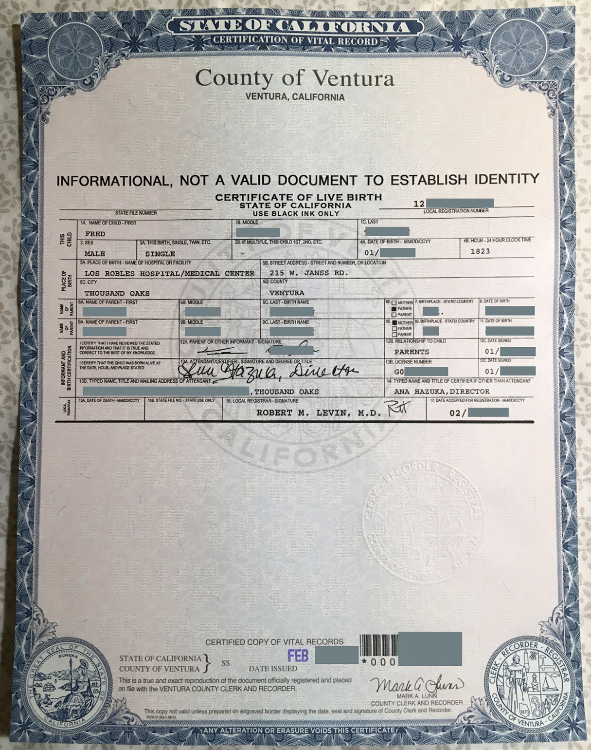 A California informational-only long-form birth certificate, issued to Freddie Reign Tomlinson.